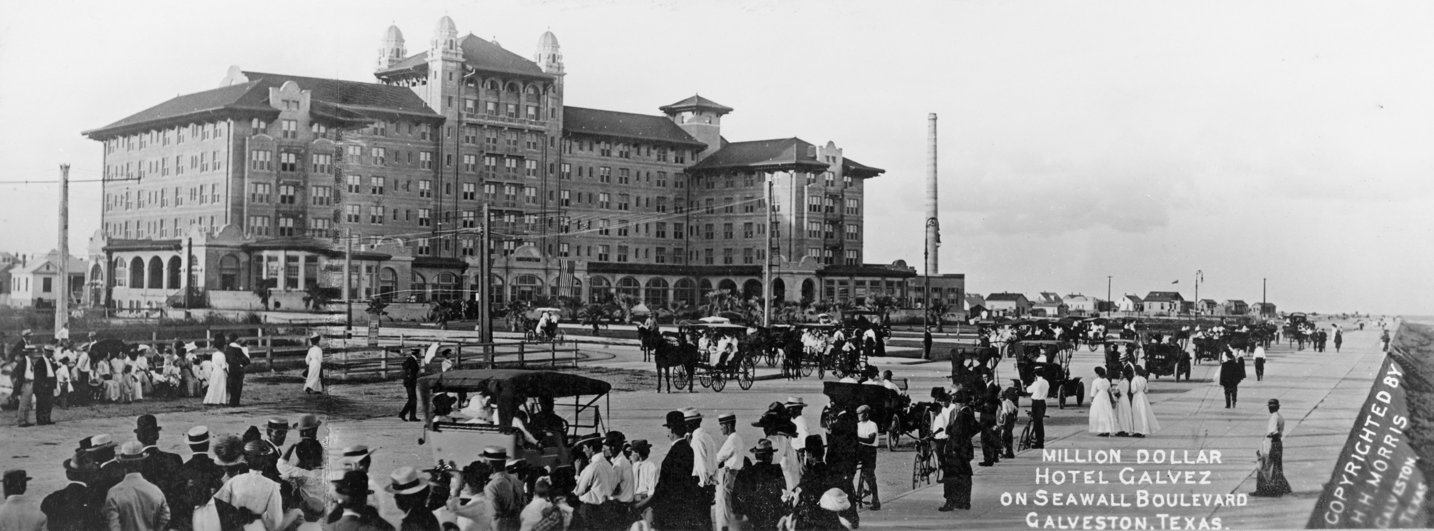 Title: Million dollar Hotel Galvez on Seawall Boulevard, Galveston, Texas Abstract/medium: 1 photographic print.